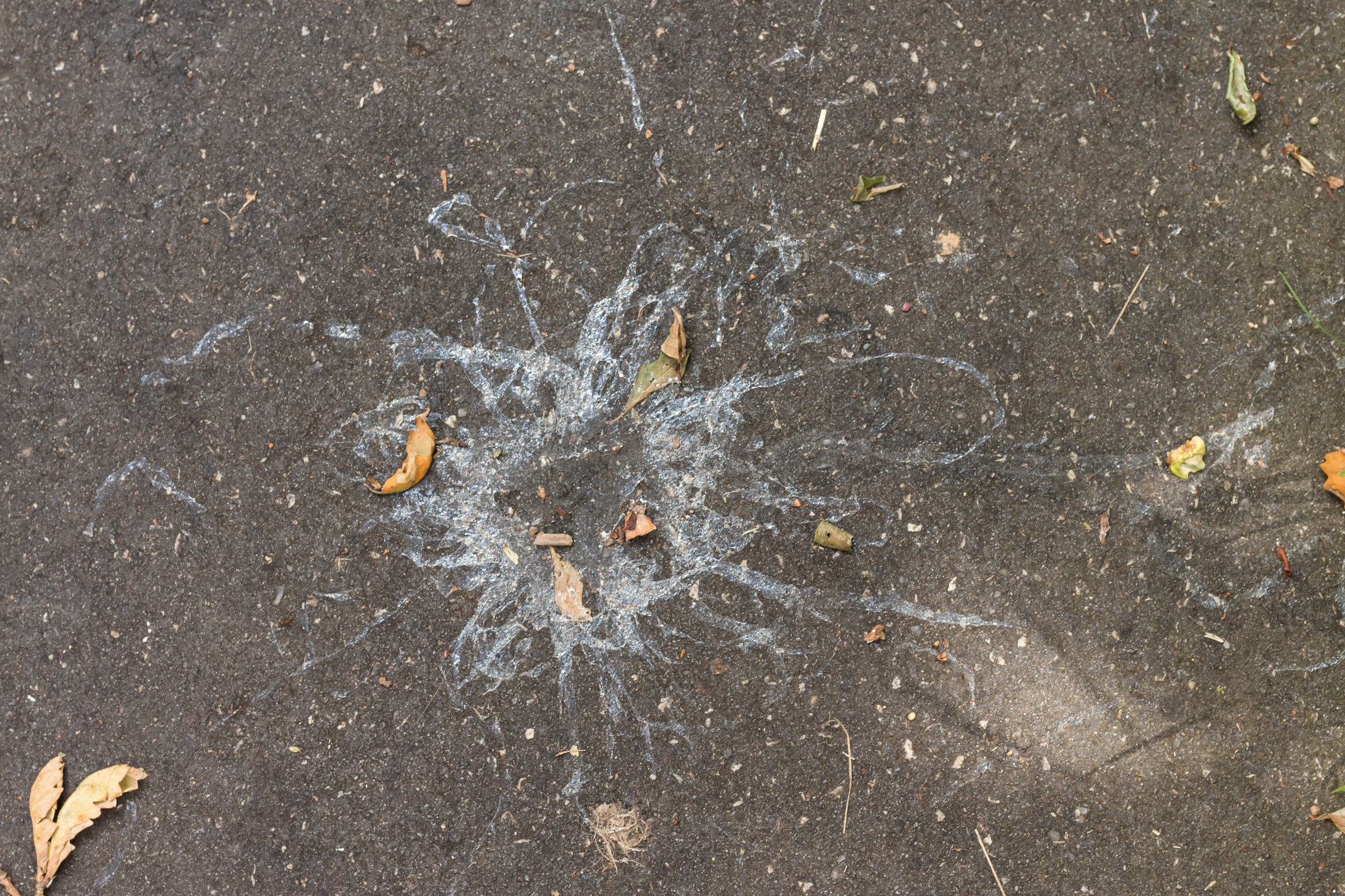 Slime tracks showing how a Common blackbird (Turdus merula) kills a Spanish slug (Arion vulgaris).